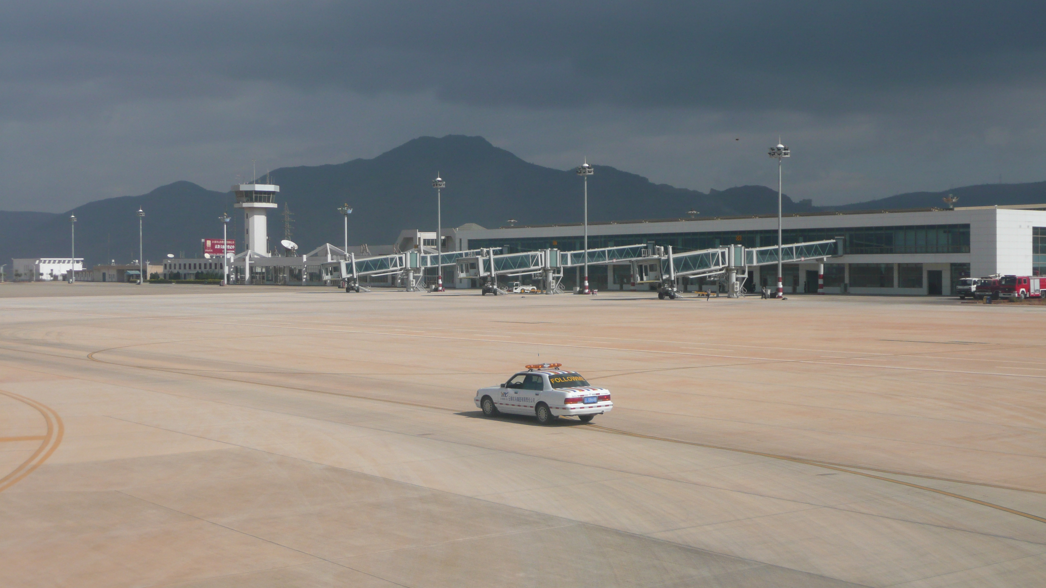 Dali Airport (Yunnan)